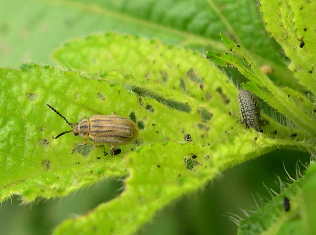 Adult and larva of Ophraella communa LeSage, 1986 (Chrysomelidae: Galerucinae) feeding on the leaf of ragweed Ambrosia trifida. Loc: Yokohama, kanagawa, japan. It's not the greatest photo, but it's better than nothing I guess... ja: オオブタクサを食うブタクサハムシ（ハムシ科：ヒゲナガハムシ亜科）の成虫と幼虫。横浜市内。 悪い写真ですが、とりあえずということで...